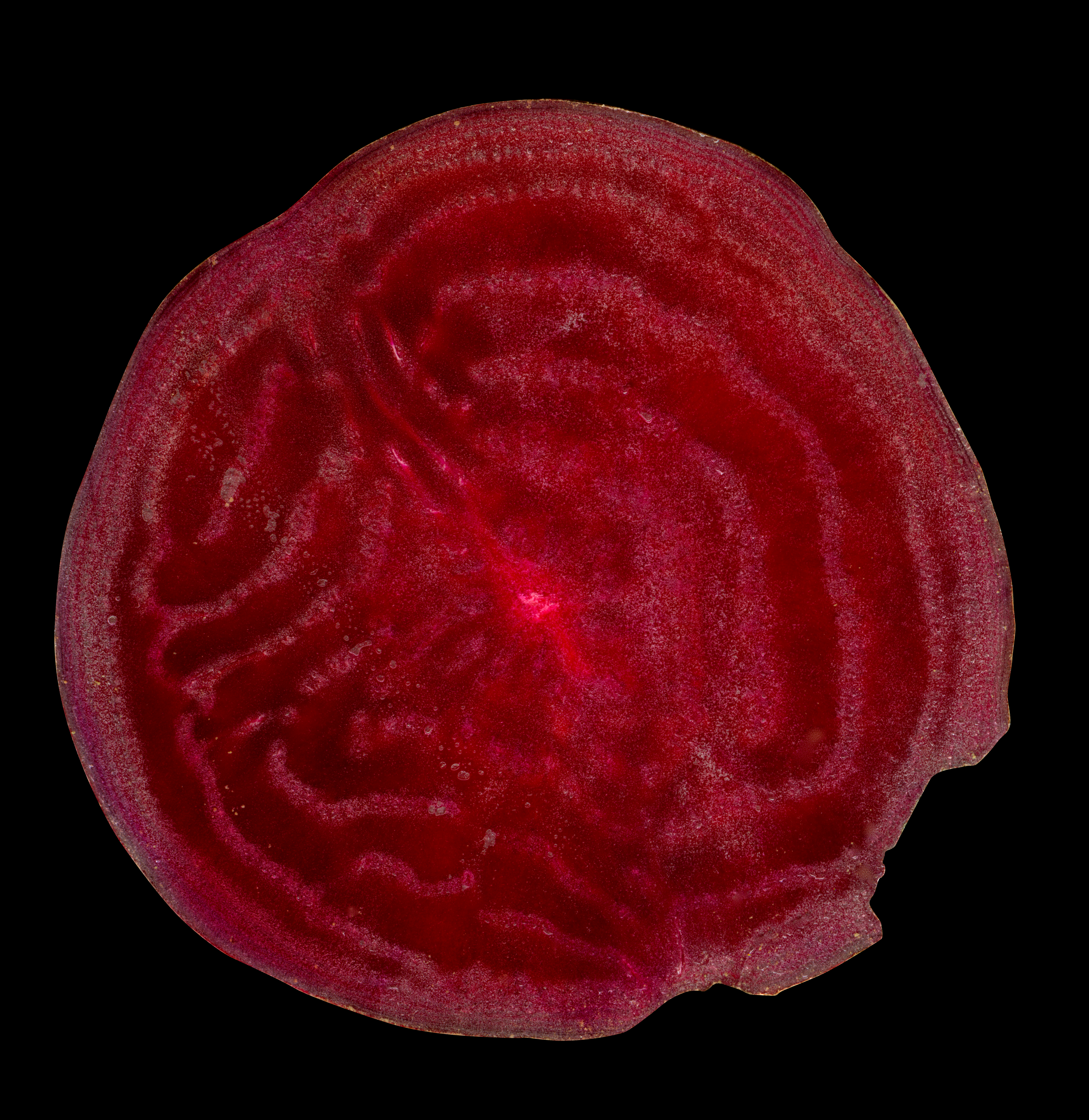 Cross section of a Beetroot